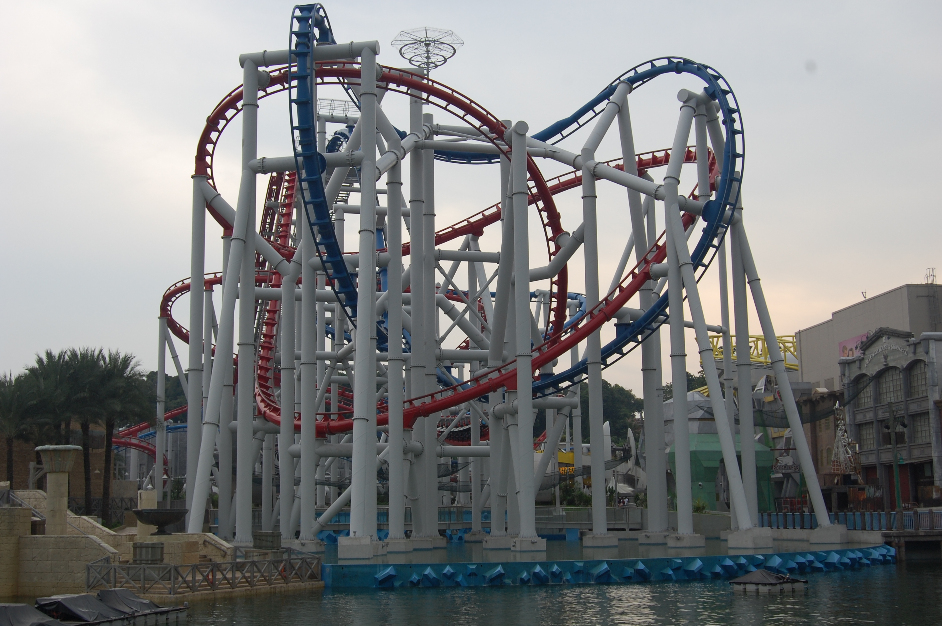 Universal Studio Singapore